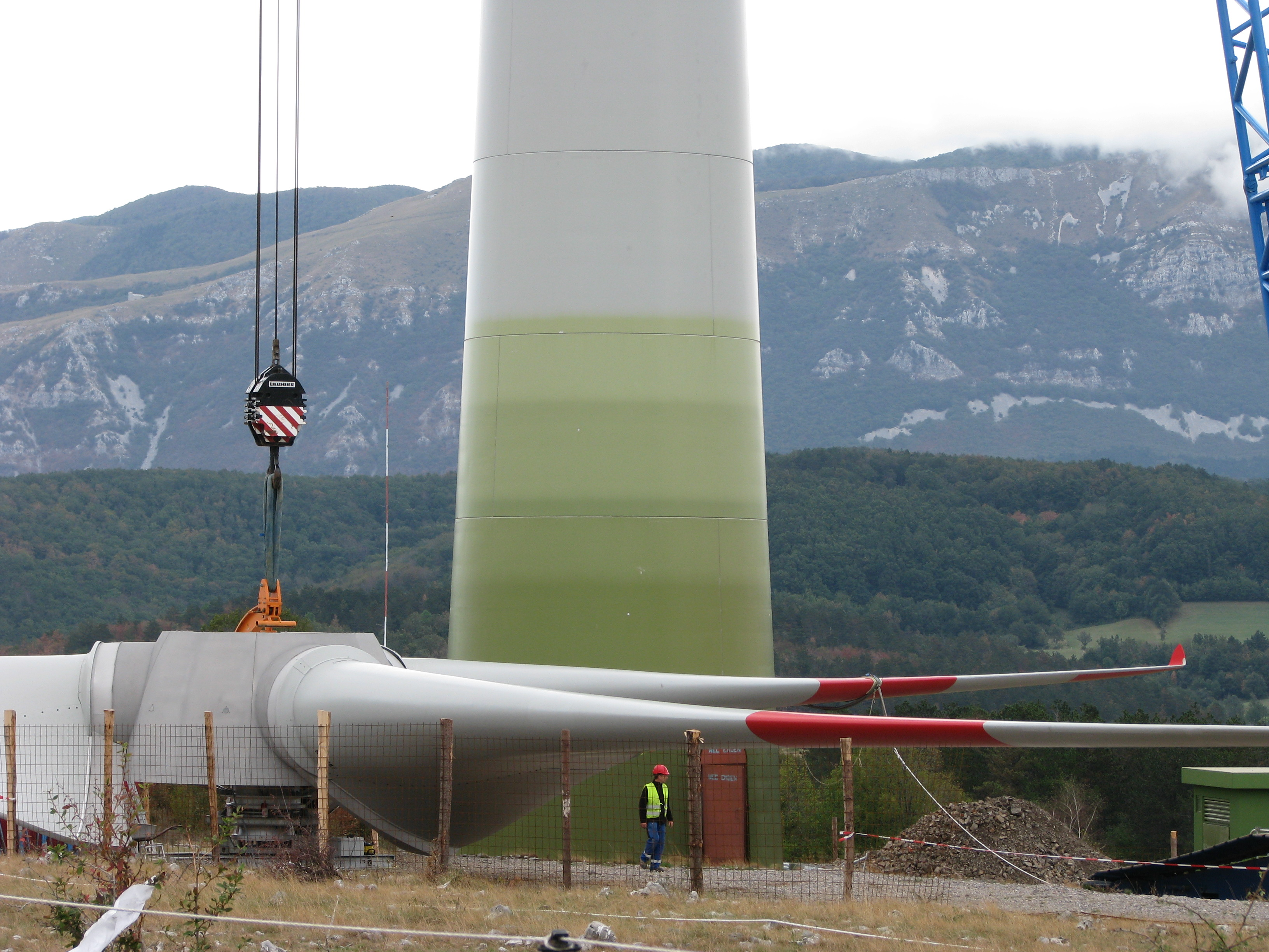 Turbine of the "Vetrna elektrarna Dolenja vas" wind farm just before erection. Senožeče, Slovenia.